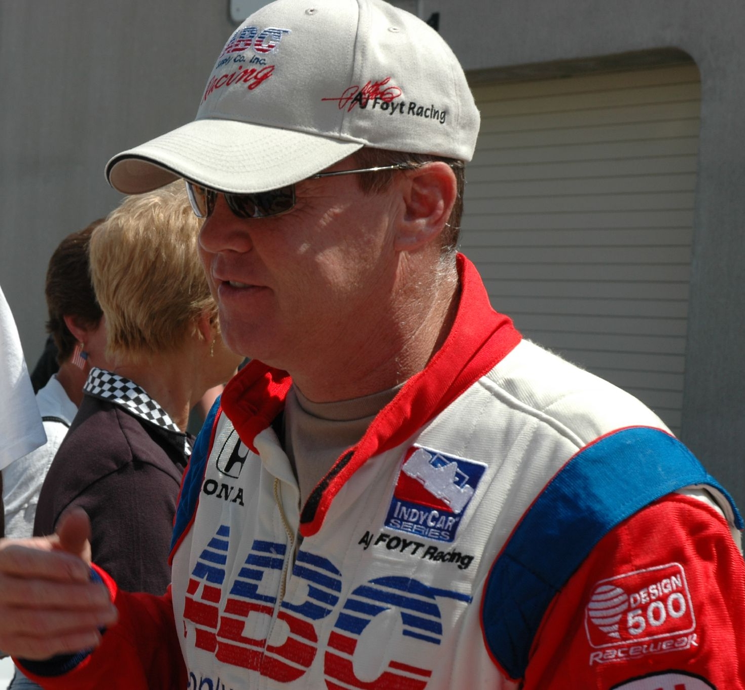 en:2007 Indianapolis 500 driver Al Unser, Jr. before the race